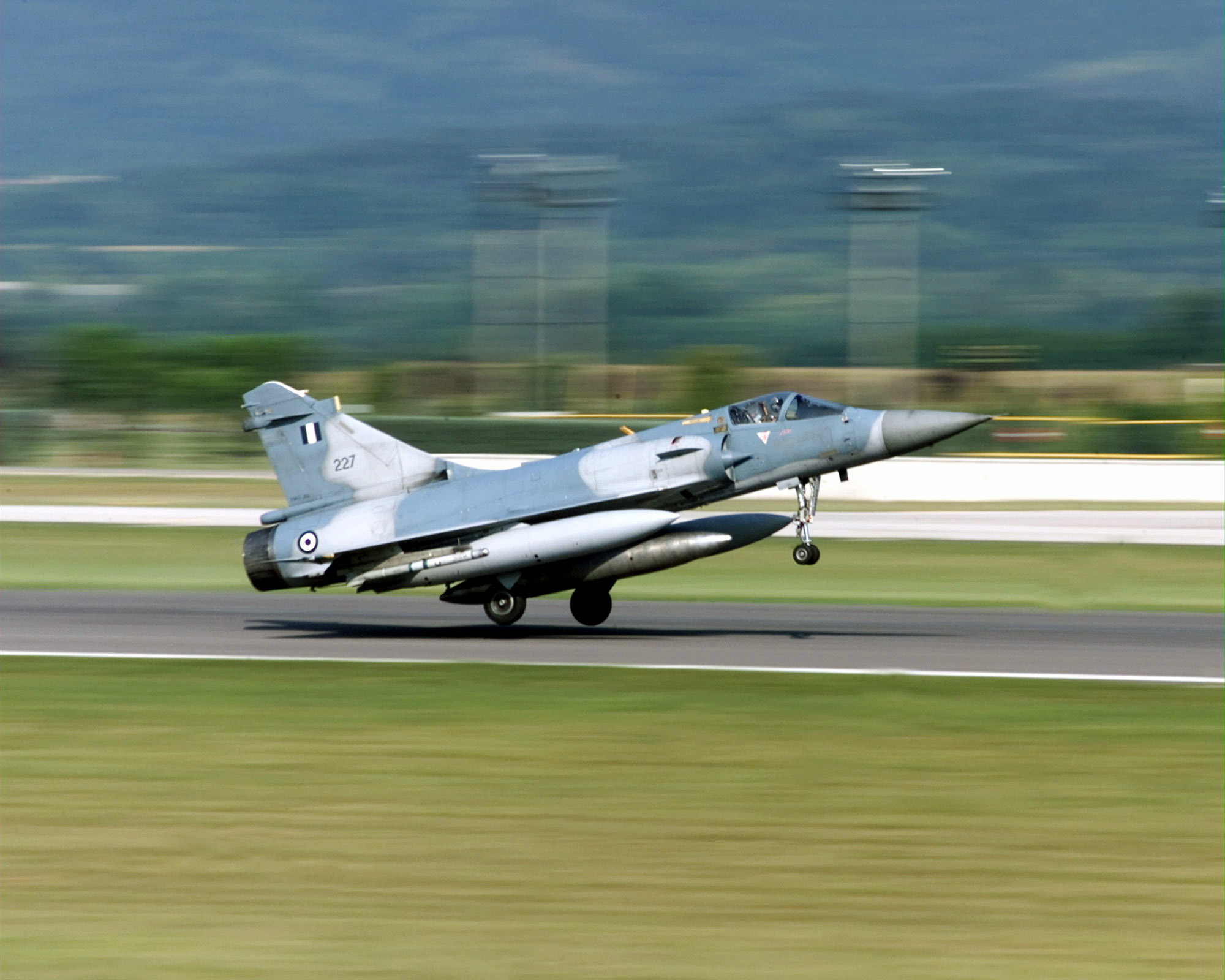 Right side profile medium shot of a Greek Air Force Mirage 2000 as it rotates out of Aviano Air Base and returns to Greece after an intense week of training with the 510th Fighter Squadron, Aviano Air Base, Italy.